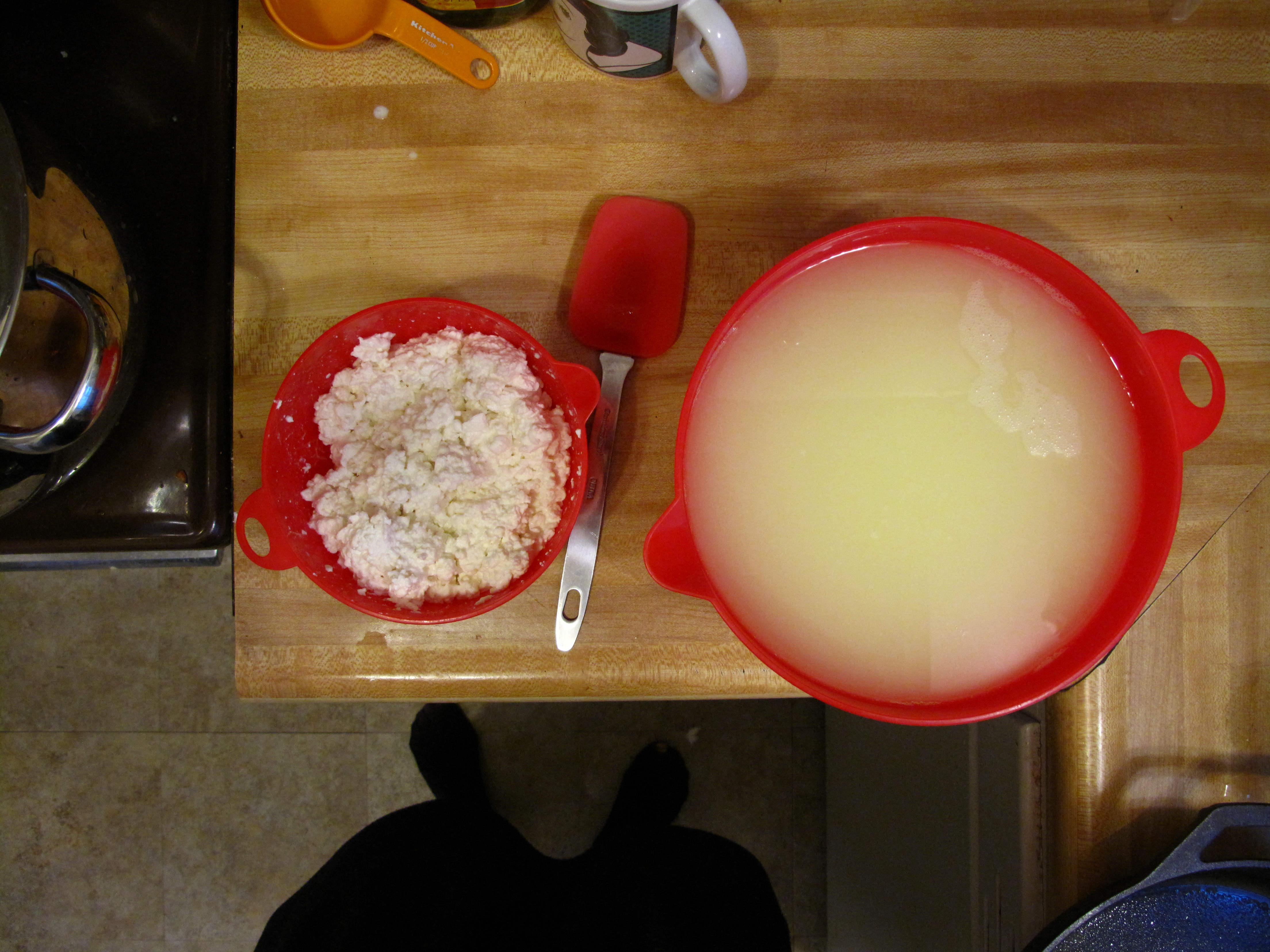 Two bowls of curds (left) and whey.